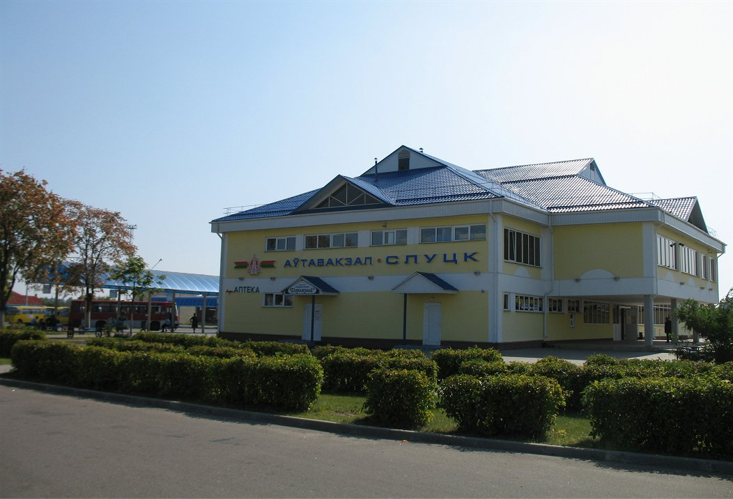 Bus station of Slutsk city, Minsk region, Belarus